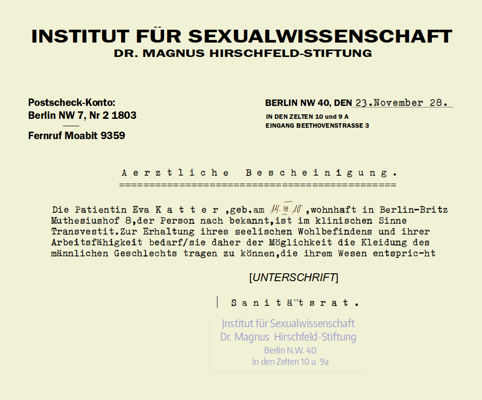 Passing document for transvestites, Berlin 1928 - Faksimile of an original